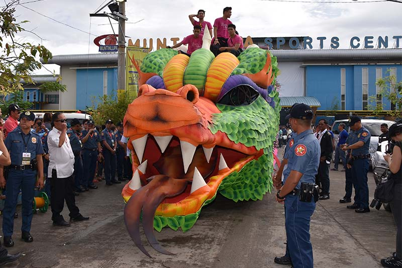 Float of Deadma Walking, one of the 8 entries of the 2017 Metro Manila Film Festival (MMFF) at the Parade of the Stars